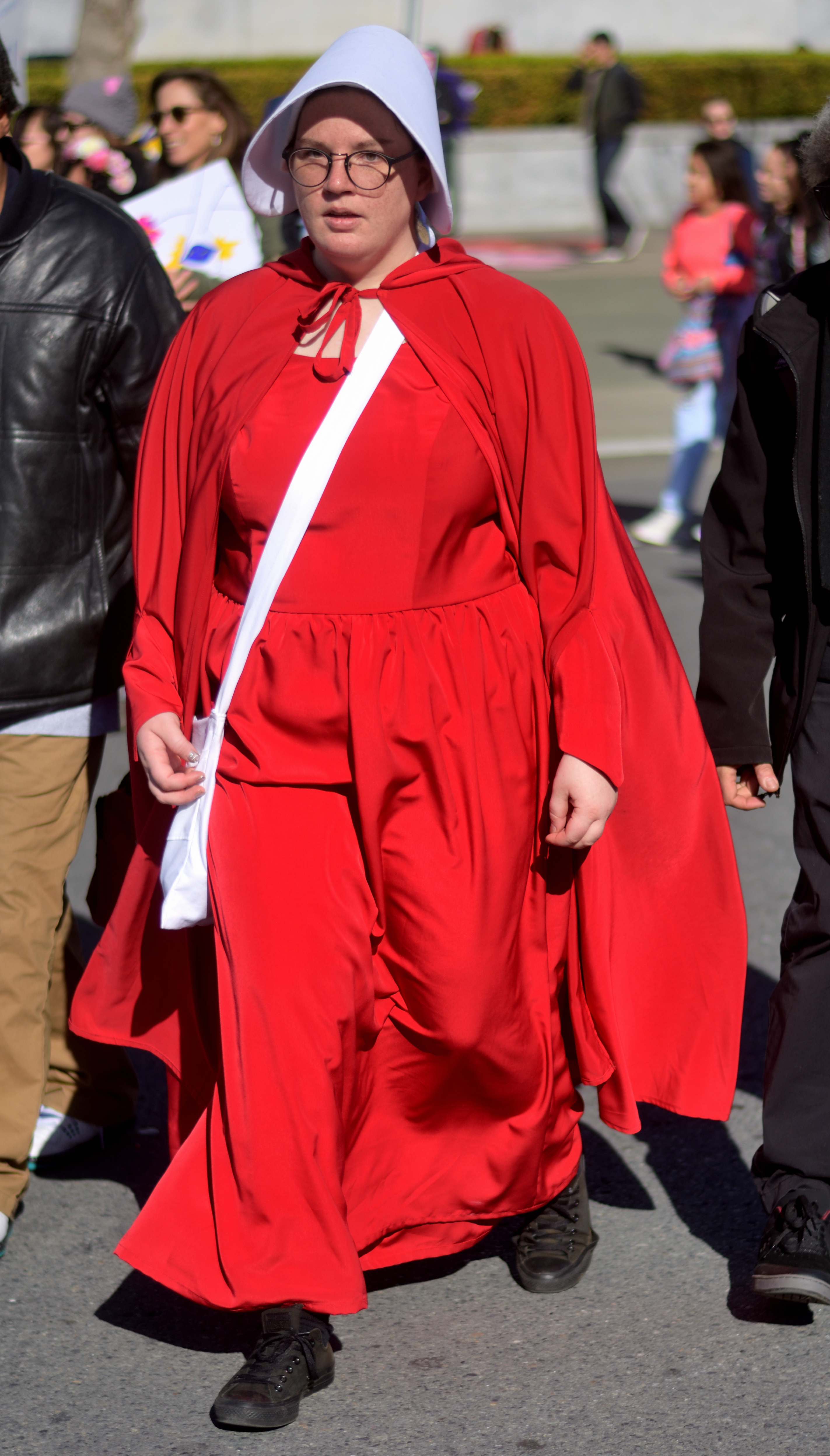 Handmaid at the 2018 San Francisco Women's March